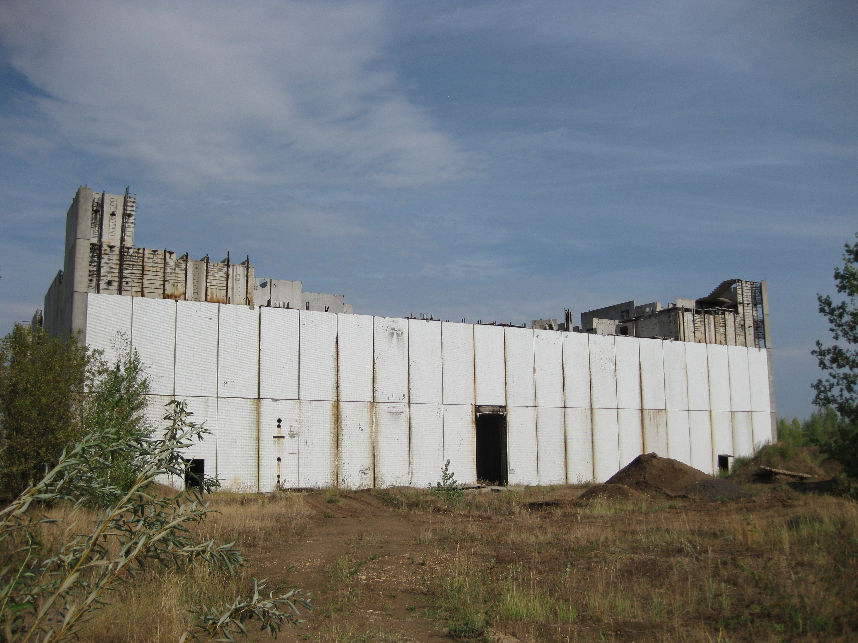 First Unit of the Tatarian Nuclear Power Plant